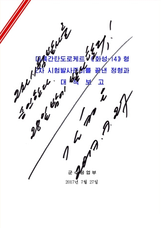 Kim Jong-un's order for the second test fire of the intercontinental ballistic missile Hwasong 14, which took place on 28 July 2017. The text content is "2차 시험발사를 승인한다. 28일 밤에 발사할 것! - 김정은 2017. 7. 27".